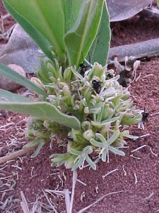 a flowering poison leaf (ratbane, Dichapetalum cymosum, gifblaar). The plant is African and has naturally made fluorocetate, a poison, to ward off animals.